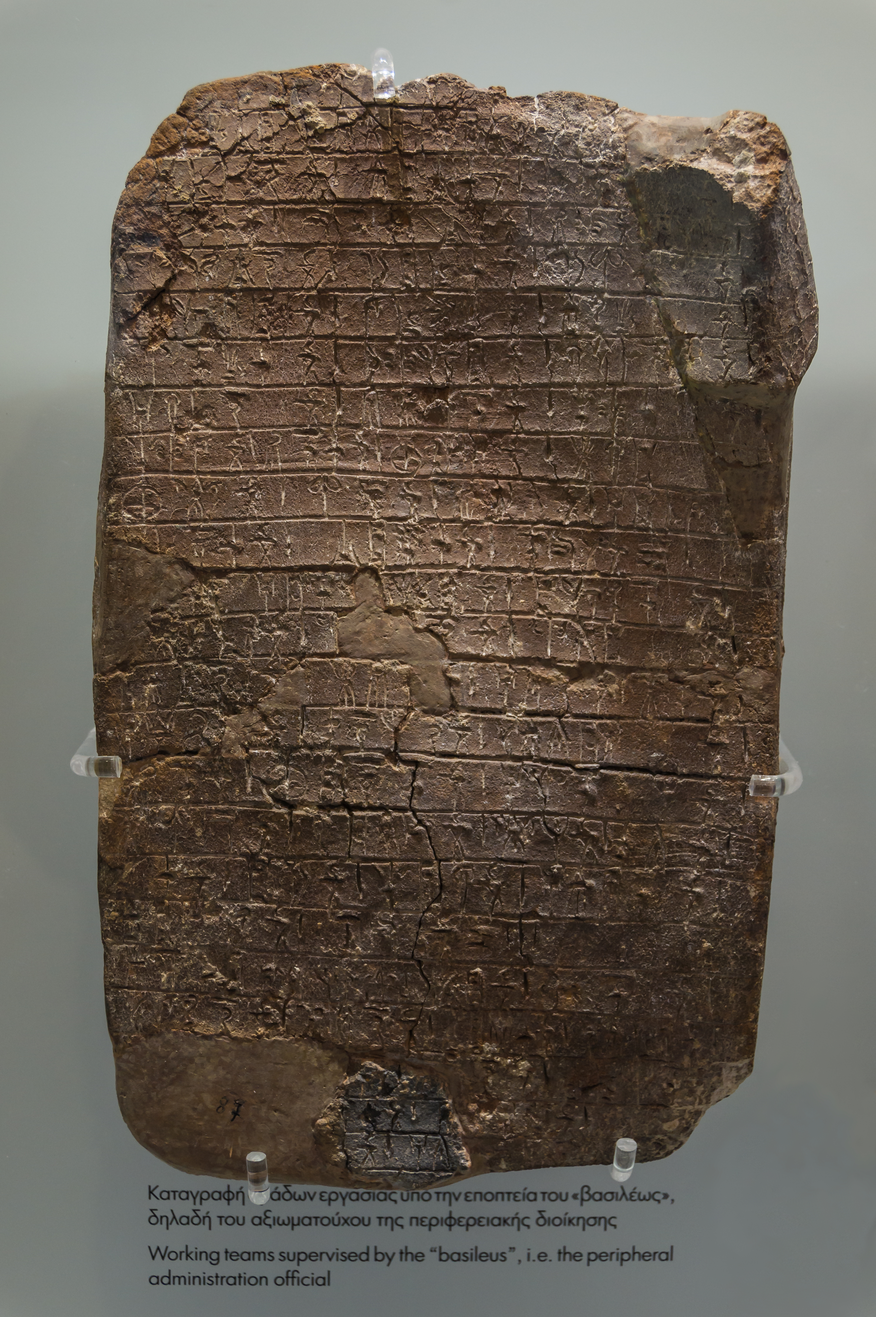 Plaque in relation with cretan administration in Knossos. Linear B writing.